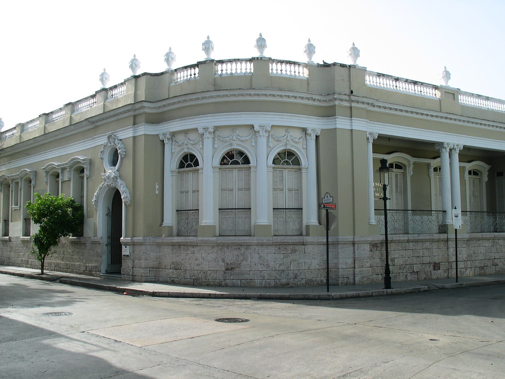 Museo de la Música Puertorriqueña in Barrio Tercero, Ponce, PR (IMG_2958)